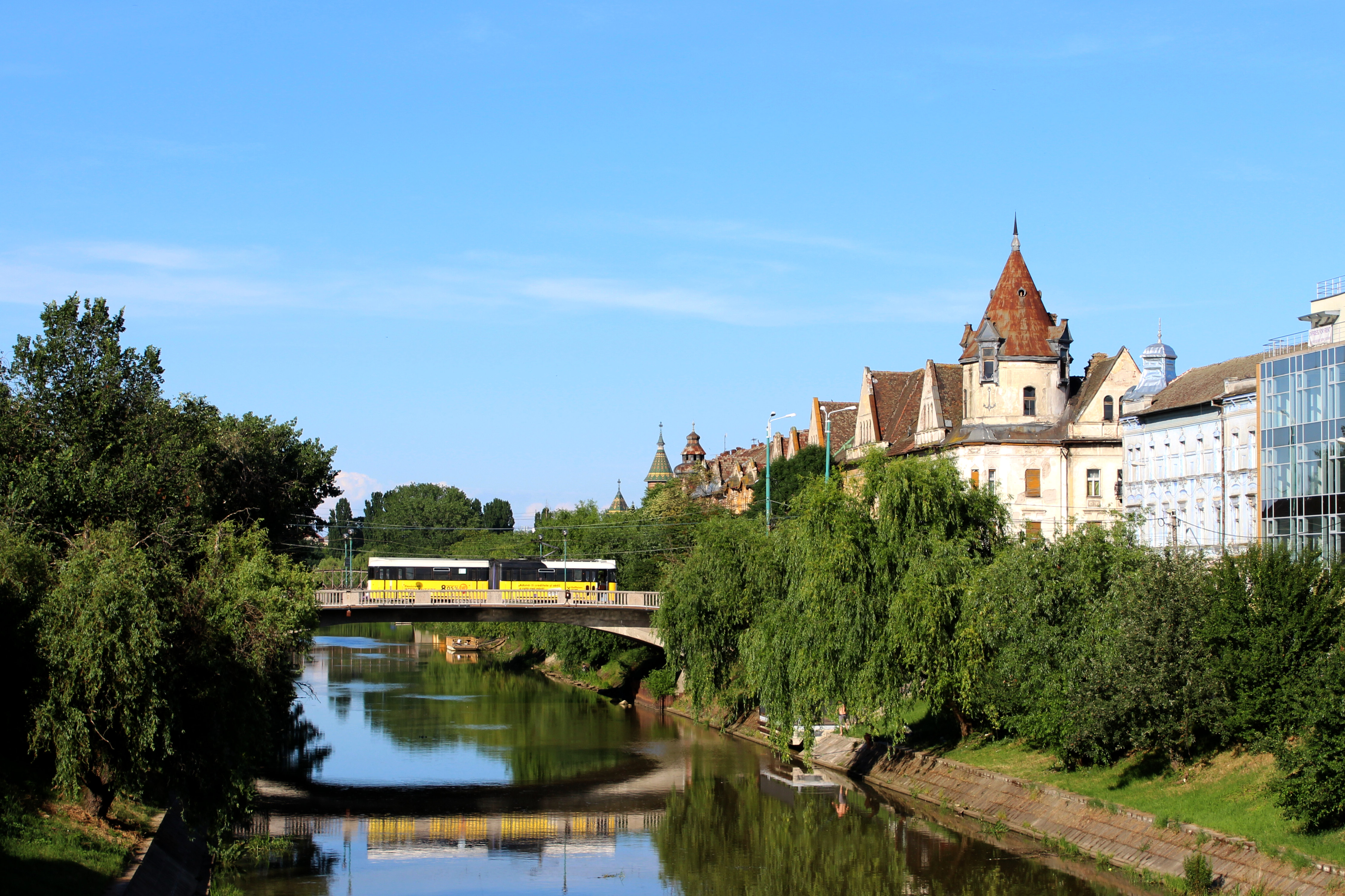 General Ion Dragalina Bridge (former Ștefan cel Mare Bridge) in 2016, Timișoara, Romania